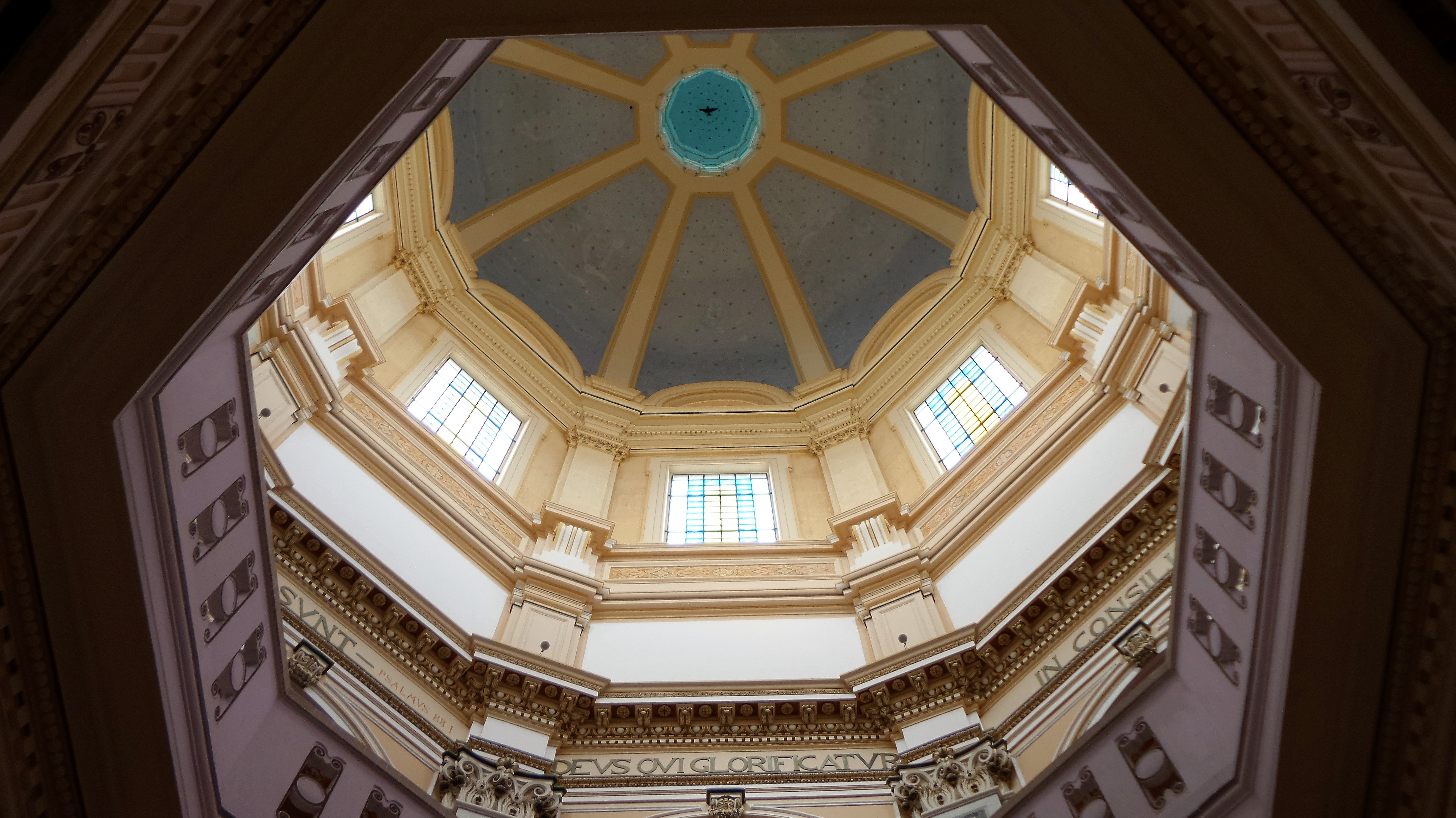 Temple Christ the King (Messina), Memorial of WWI and WWII